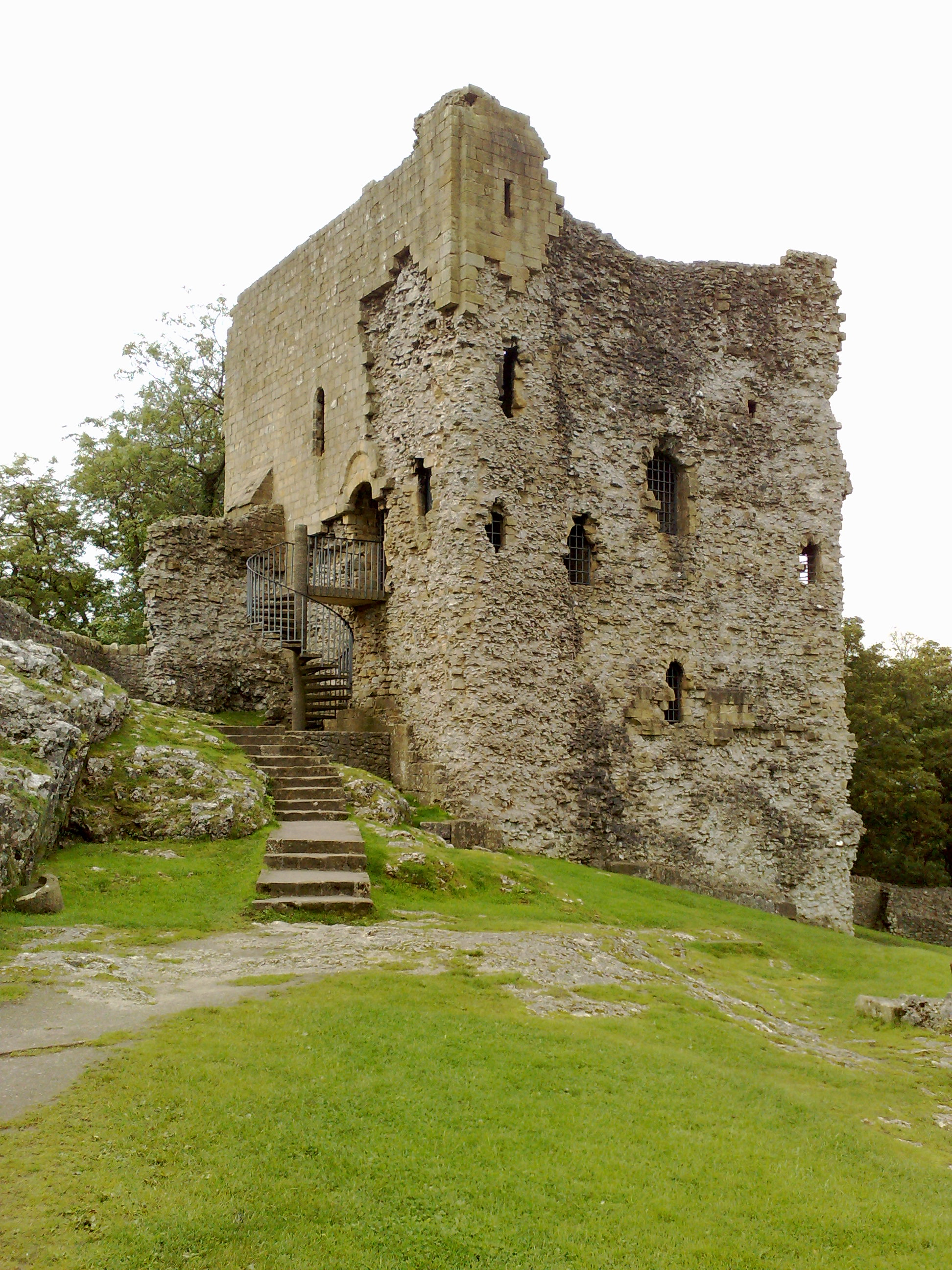 The keep of Peveril Castle, Castleton, with the entrance on the first floor